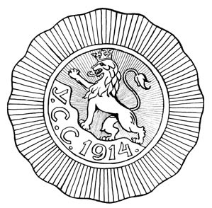 Emblem of the Ukrainian Sichovi Striltsi